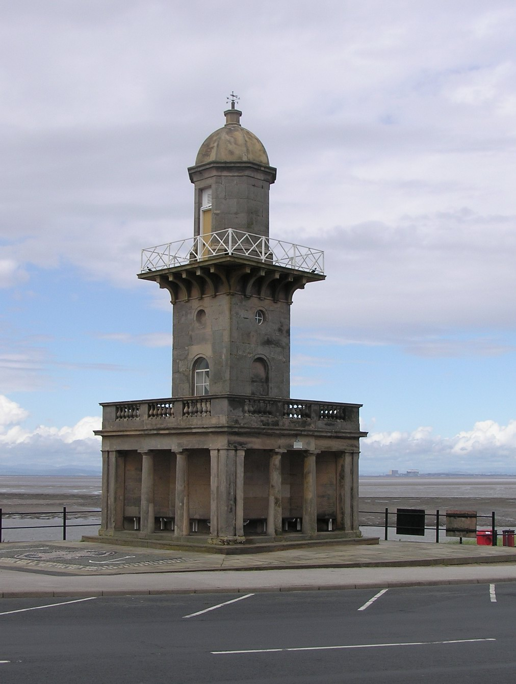 Fleetwood Lower Light June 2004